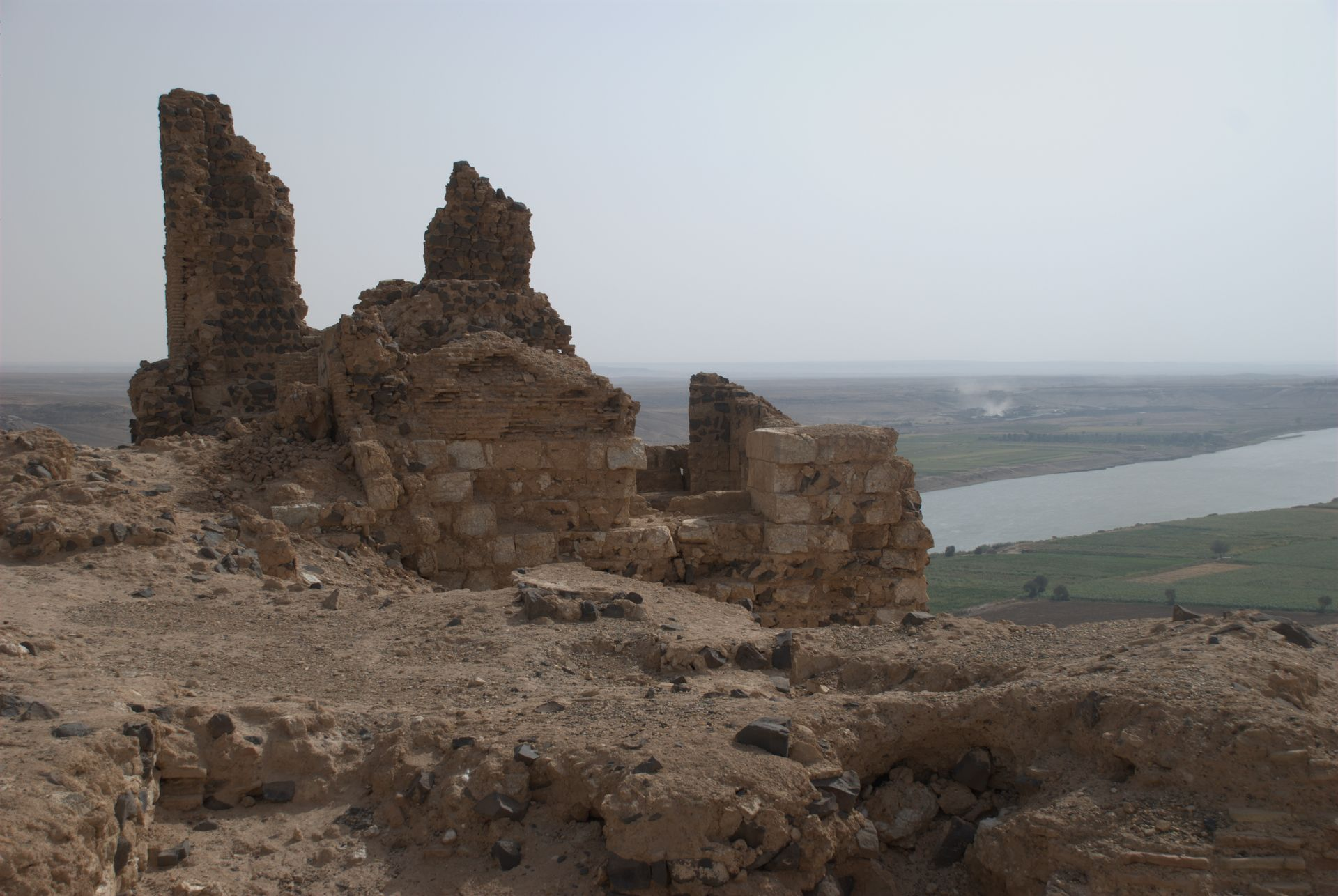 Halabiya, Zenobia, Syria. Citadel